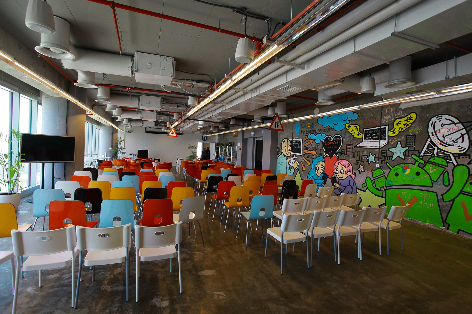 Wikimedia Israel' Hackathon at Campus Tel Aviv Photo: Liran Mimon / Wikimedia Israel